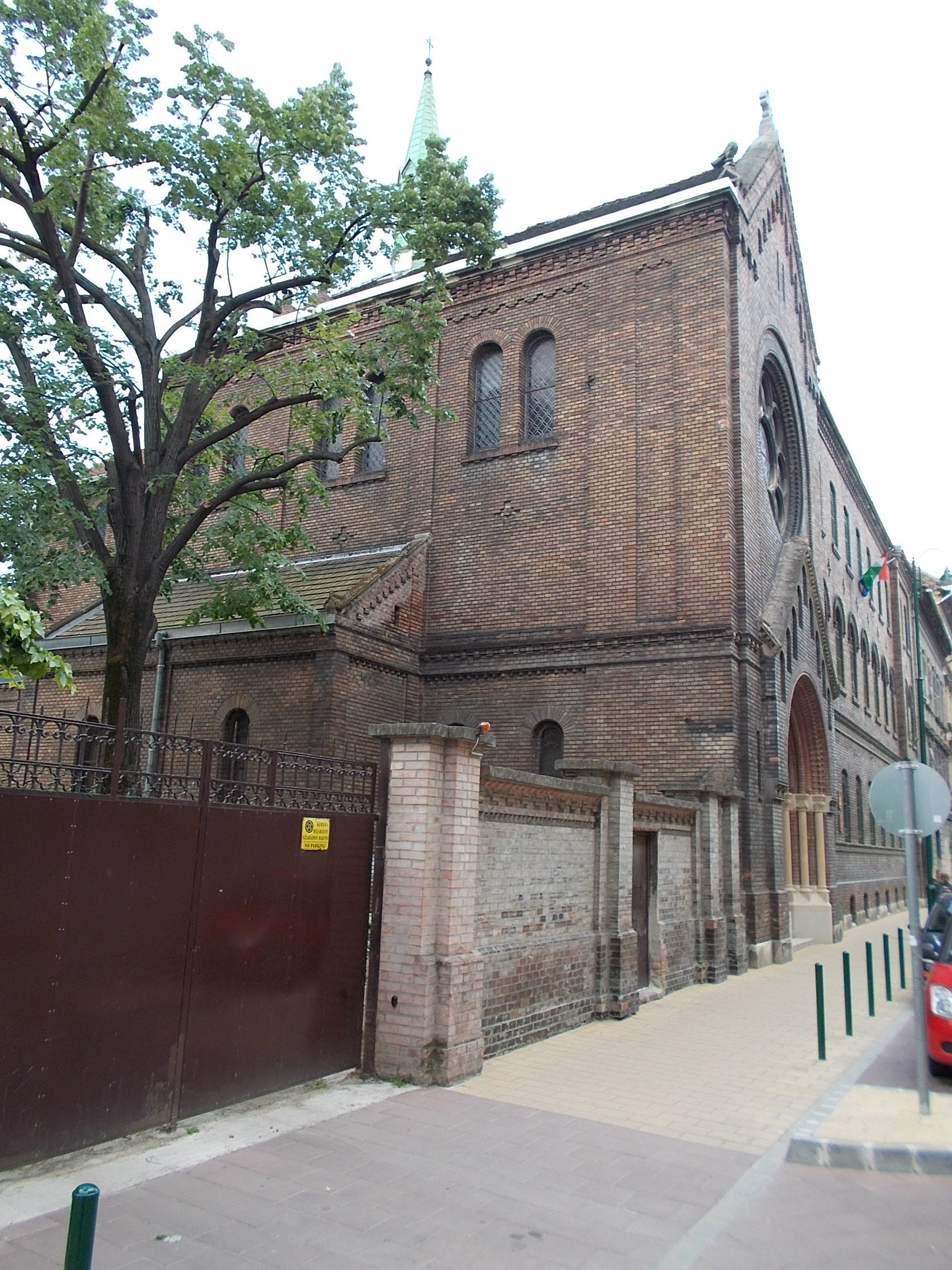 Saint Petrus Canisius church, partly school and kindergarten. - Gát Street, Budapest District IX., Hungary.